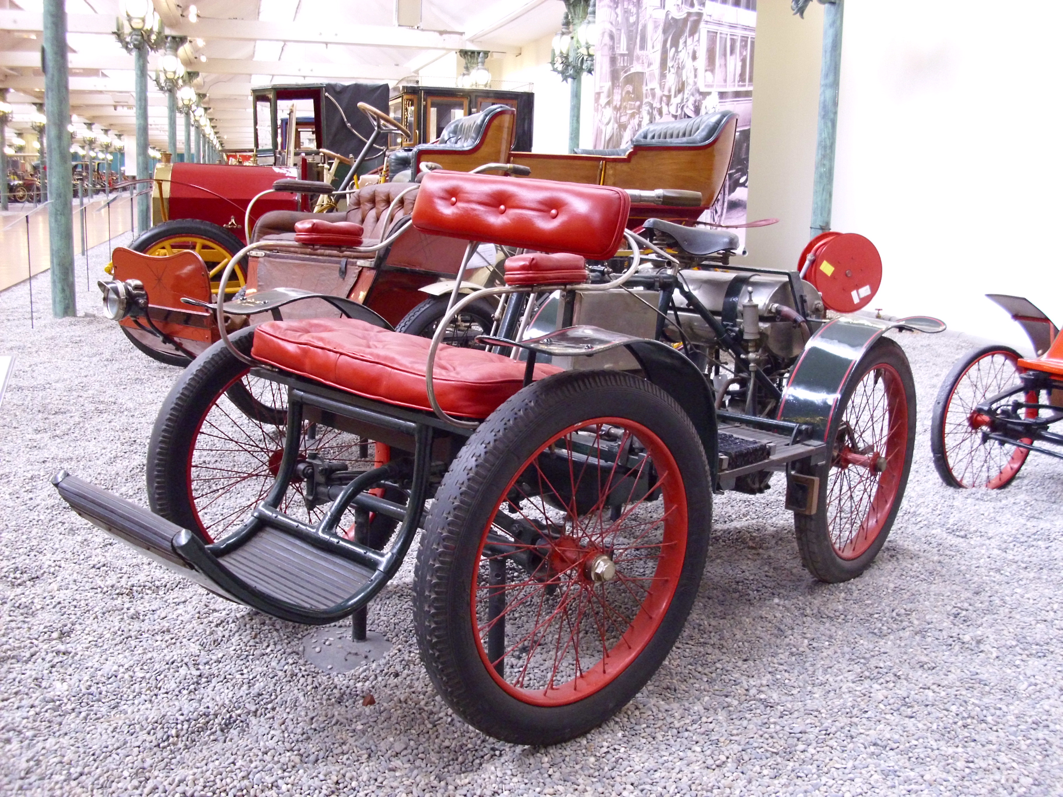 Soncin 1901